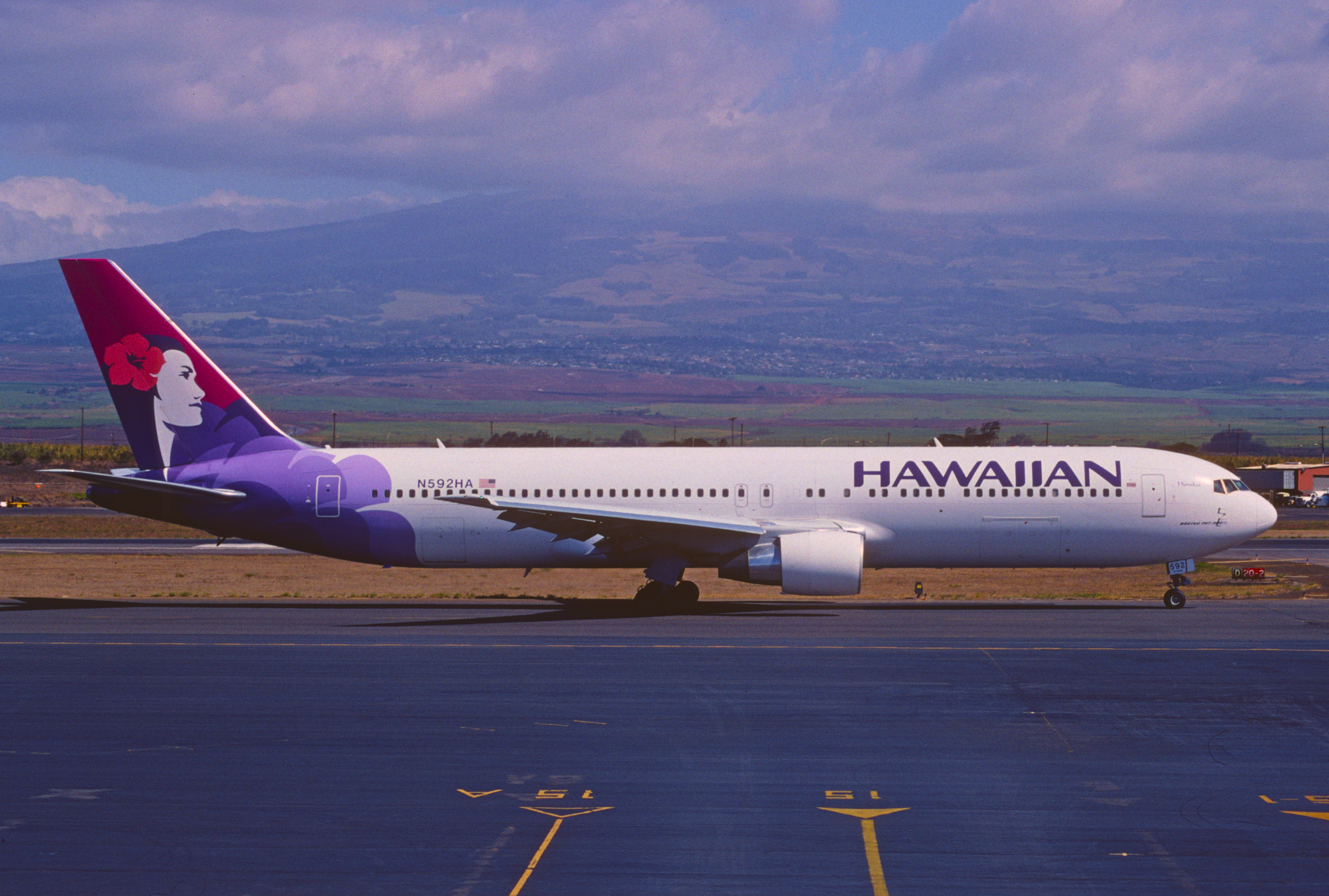 This Boeing 767-3CBER took its first flight on January 23, 2003 and was delivered to HA on February 3, 2003...(c/n 33468/ 898)